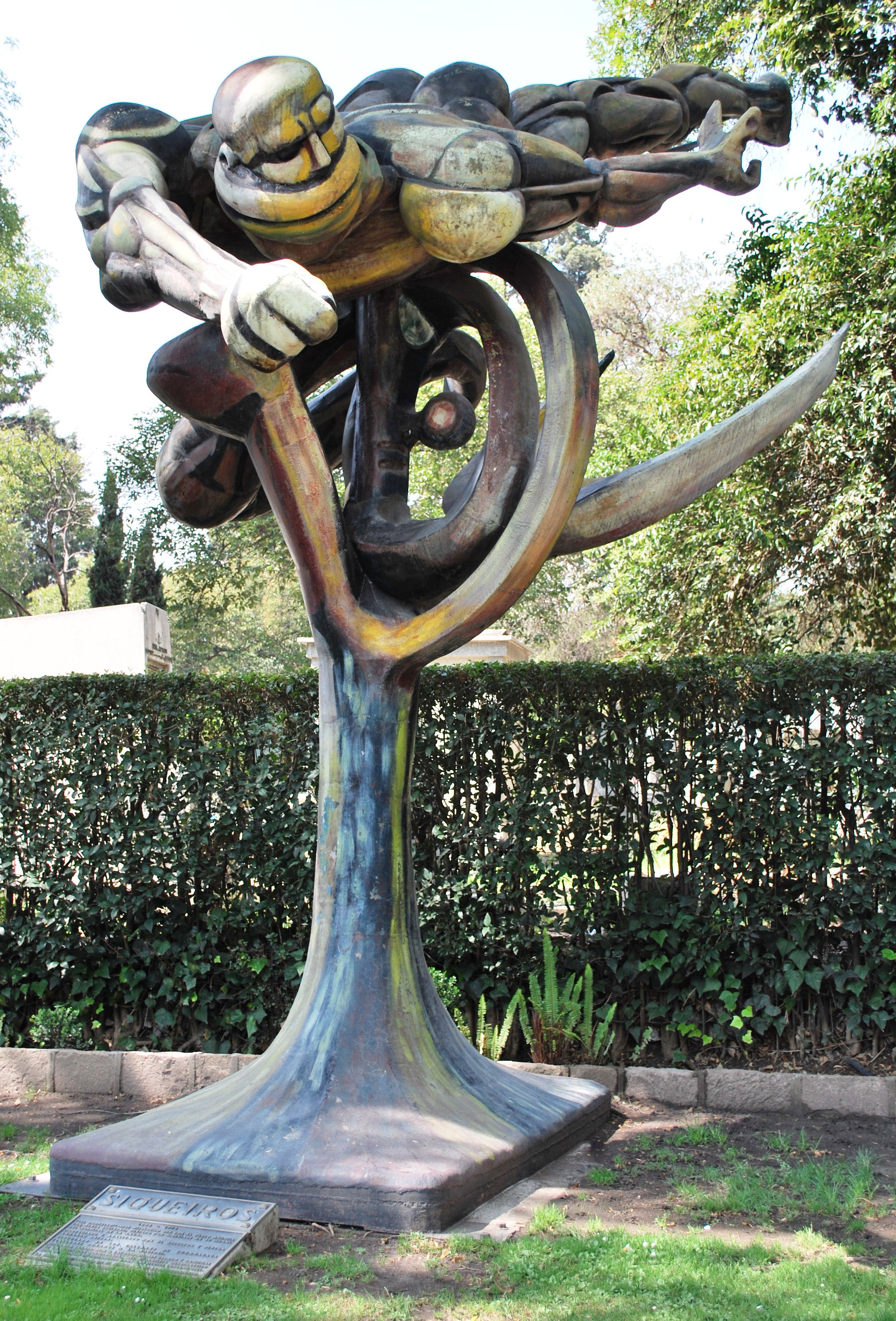 Tomb of David Alfaro Siquieros in the Panteon Civil de Dolores cemetery in Mexico City